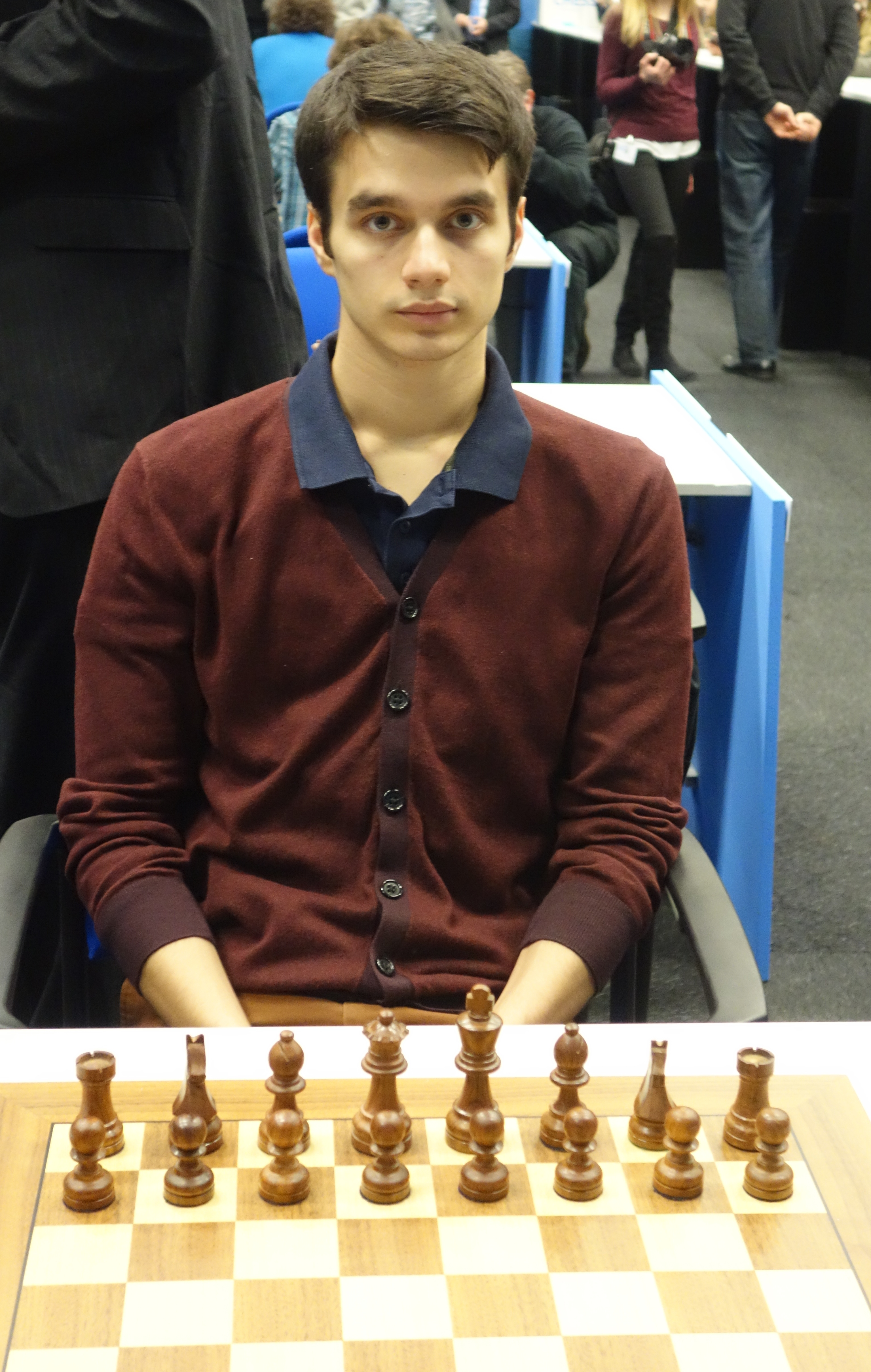 Tata Steel chess tournament 2018